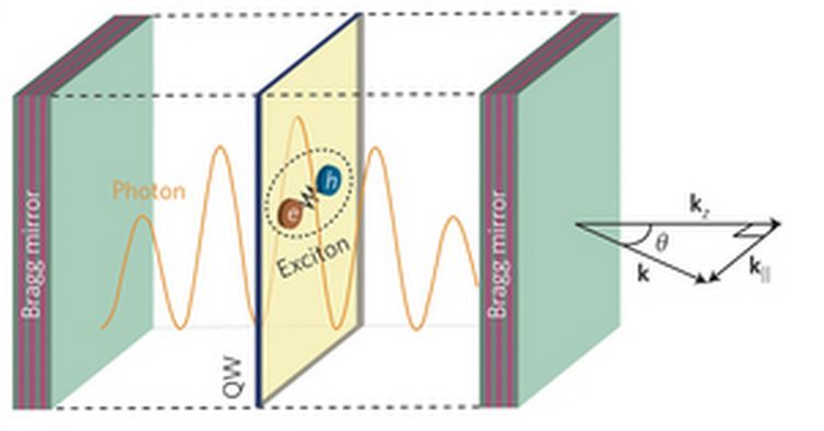 Cavity exciton polariton device